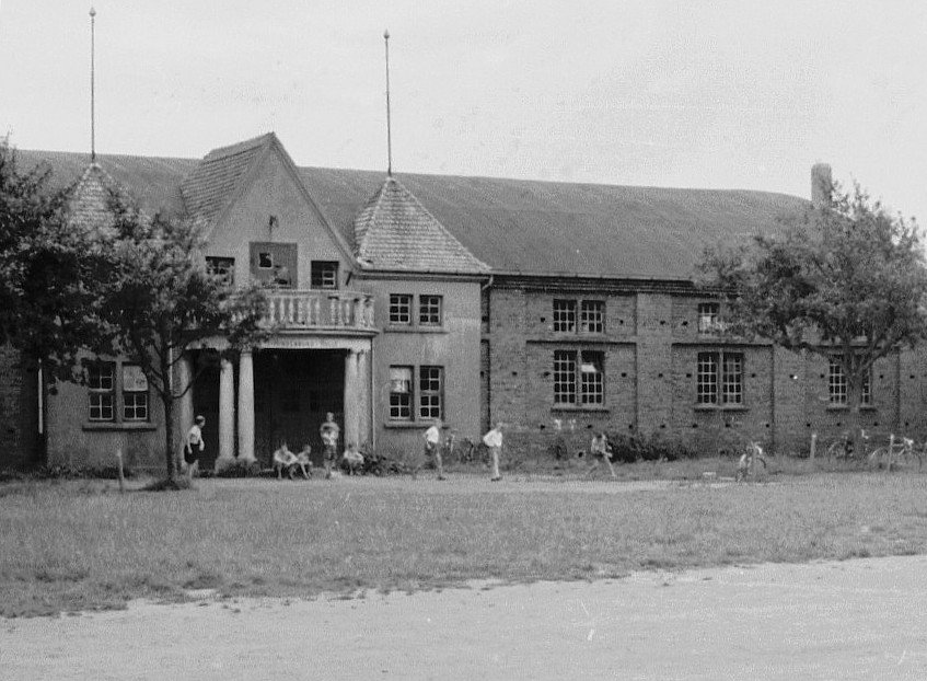 This image shows a heritage building in Germany, located in the North Rhine-Westphalian city Preußisch Oldendorf (no. 53).